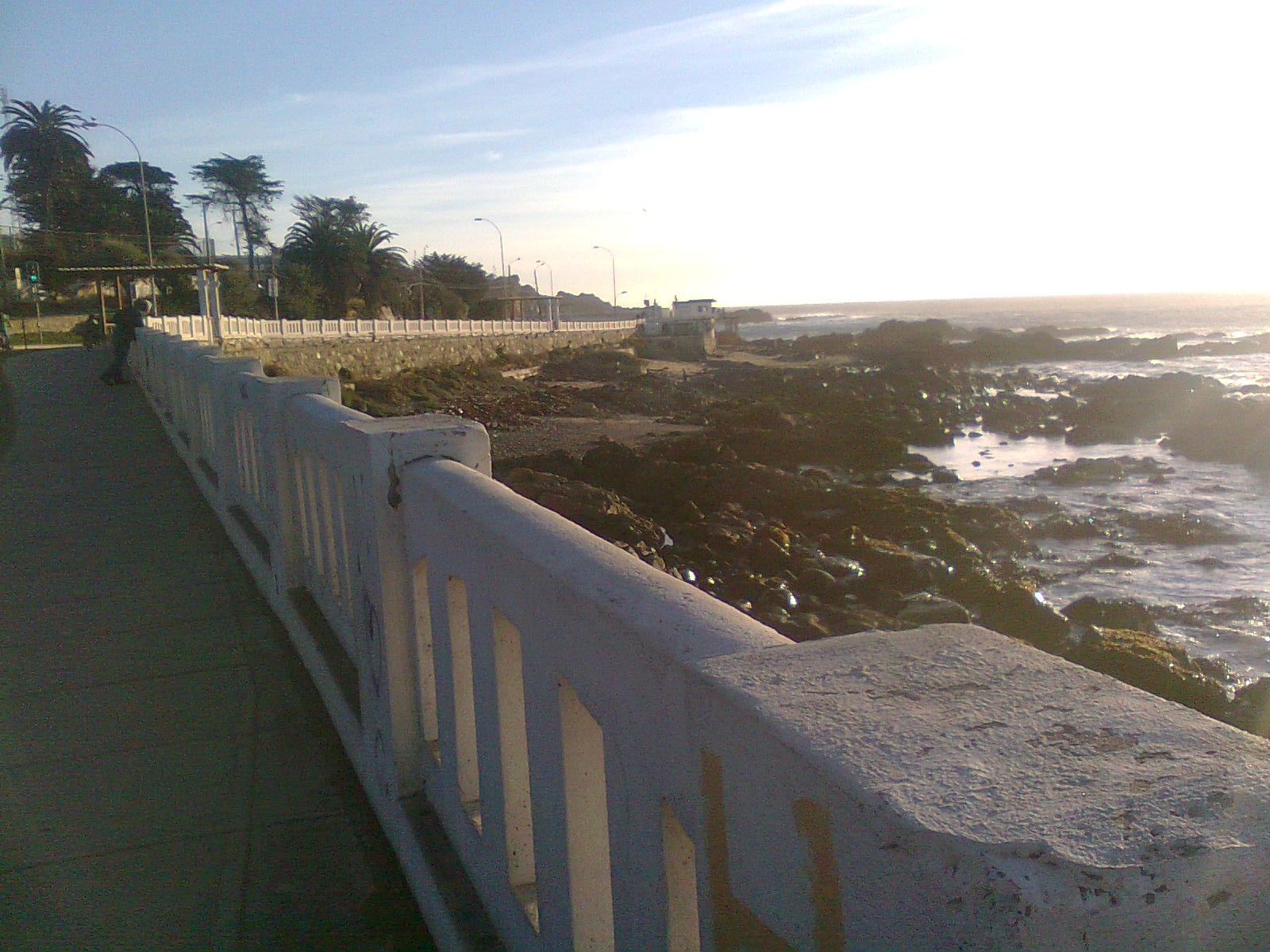 Altamirano avenue on Valparaíso, Chile